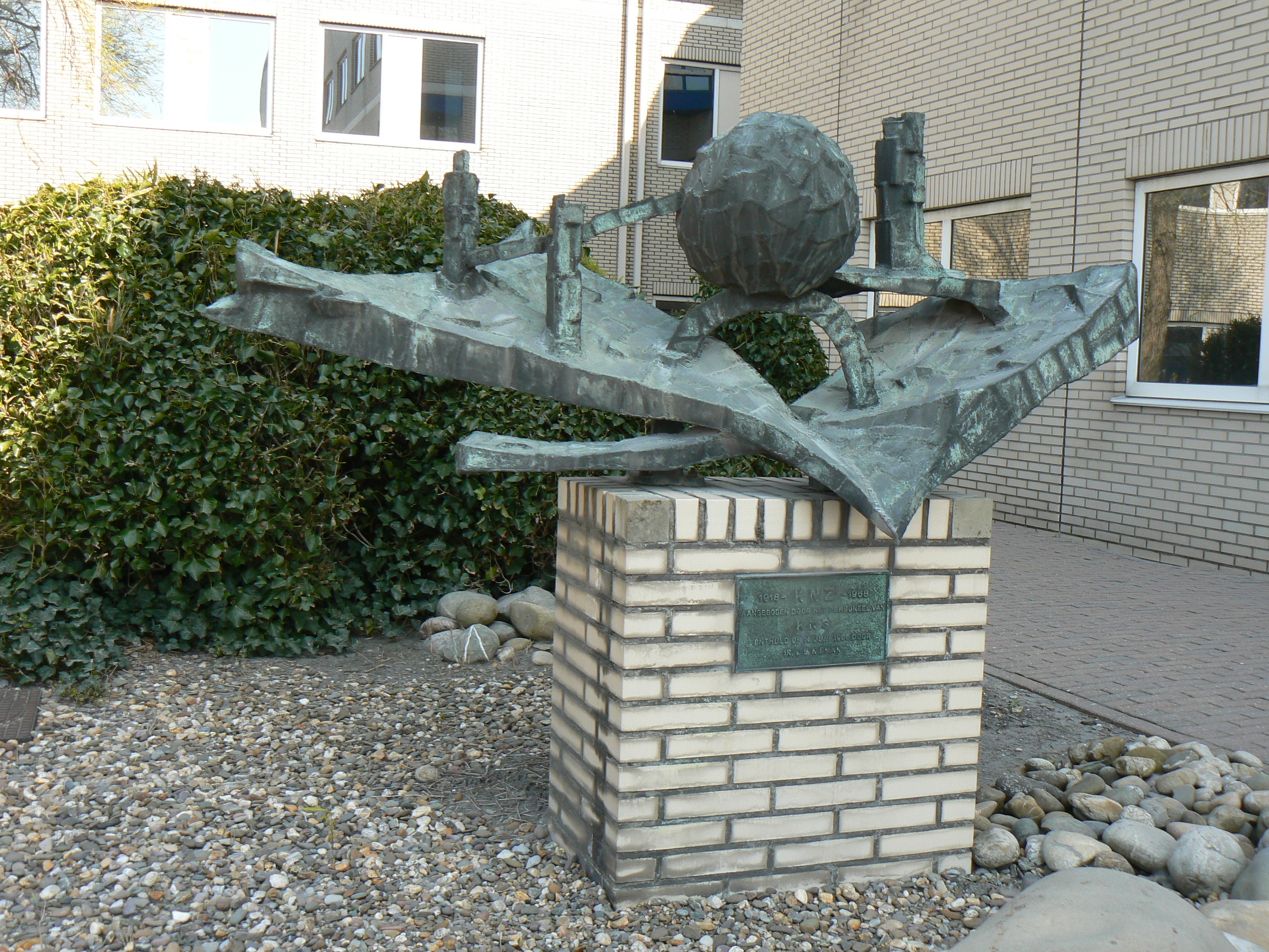 sculpture 1971 by Jef Depassé KNZ Akzo Nobel Office in Delfzijl/The Netherlands